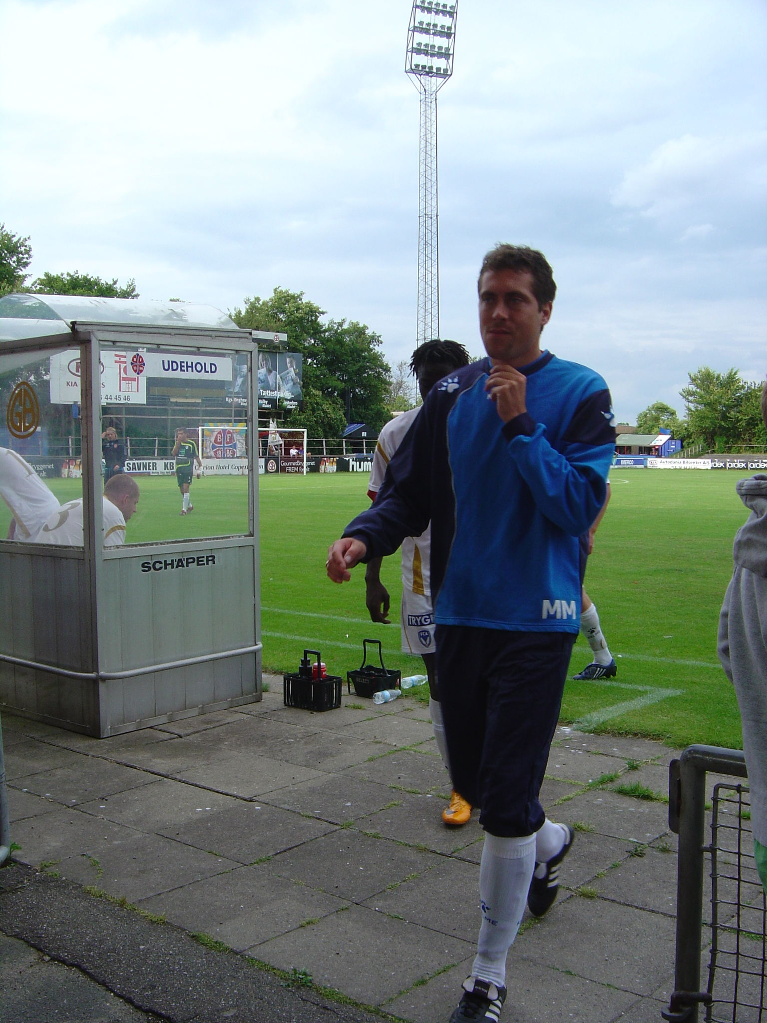 Football coach Michael Madsen for Danish football club FC Amager walking back to the dressing room at the end of an away friendly match on 16 July 2008 against Boldklubben Frem, who won the match 1-0.